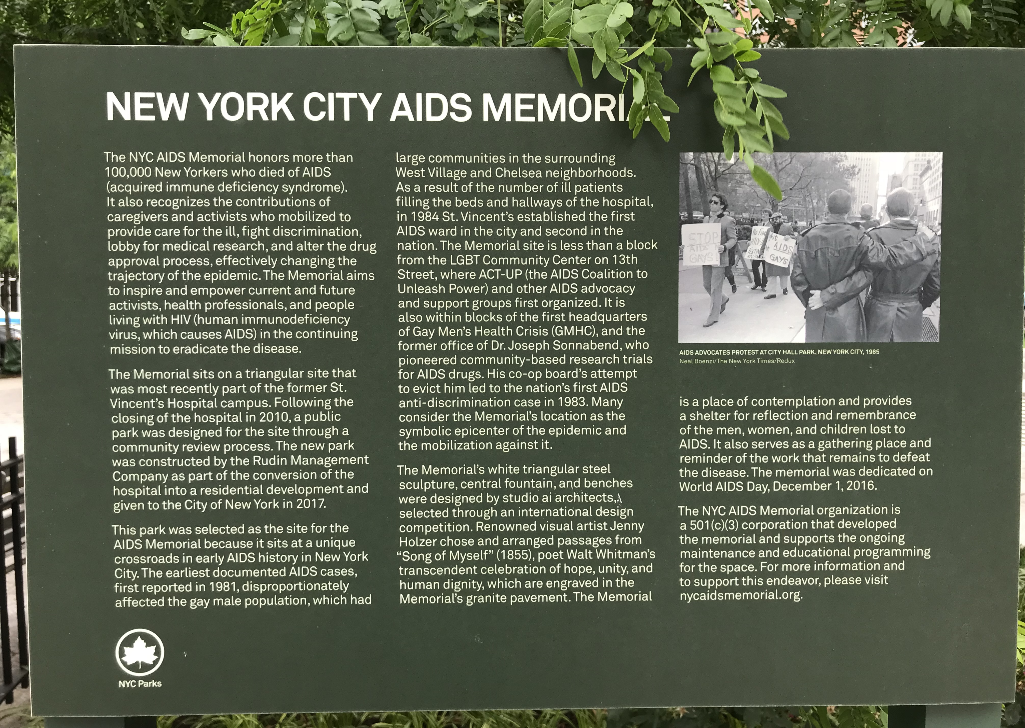 NYC AIDS Memorial Park at St Vincent's Triangle in Greenwich Village.Locality: New York CityTheme: This demonstrates public support of LGBT rights and place in history as connected with NYC Parks.